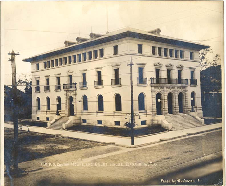 Fernandina, Florida U.S. Post Office, Custom House, and Courthouse (n.d., ca. 1912) Completed in 1912. Supervising Architect: James Knox Taylor The U.S. District Court for the Southern District of Florida met here until the creation of the Middle District in 1962; building used by the U.S. District Court for the Middle District of Florida beginning in 1962. Still in use as a post office.